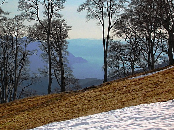 Alpe di Neggia View on Lago Maggiore picture taken by user Idéfix April, 16, 2006